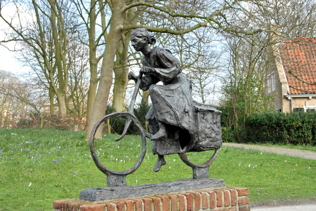 De koerierster Made by Tineke Bot In appreciation of all women caring for persons in hiding during world war II. Situated at the Prinsentuin (Leeuwarden).